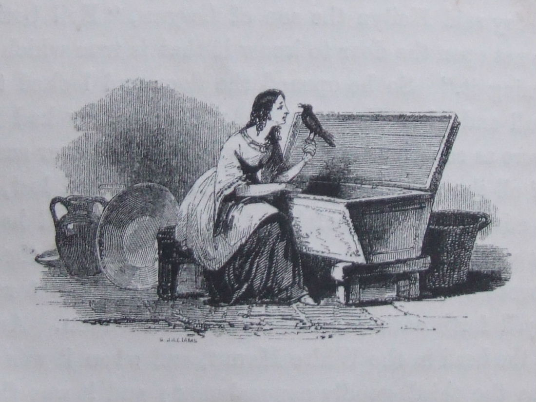 Branwen with her starling (drudwy) in the court of Matholwch in Ireland. A scene from the second of the Four Branches of the Mabinogi.